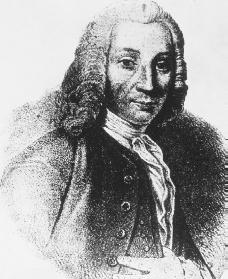 Swedish astronomer Anders Celsius